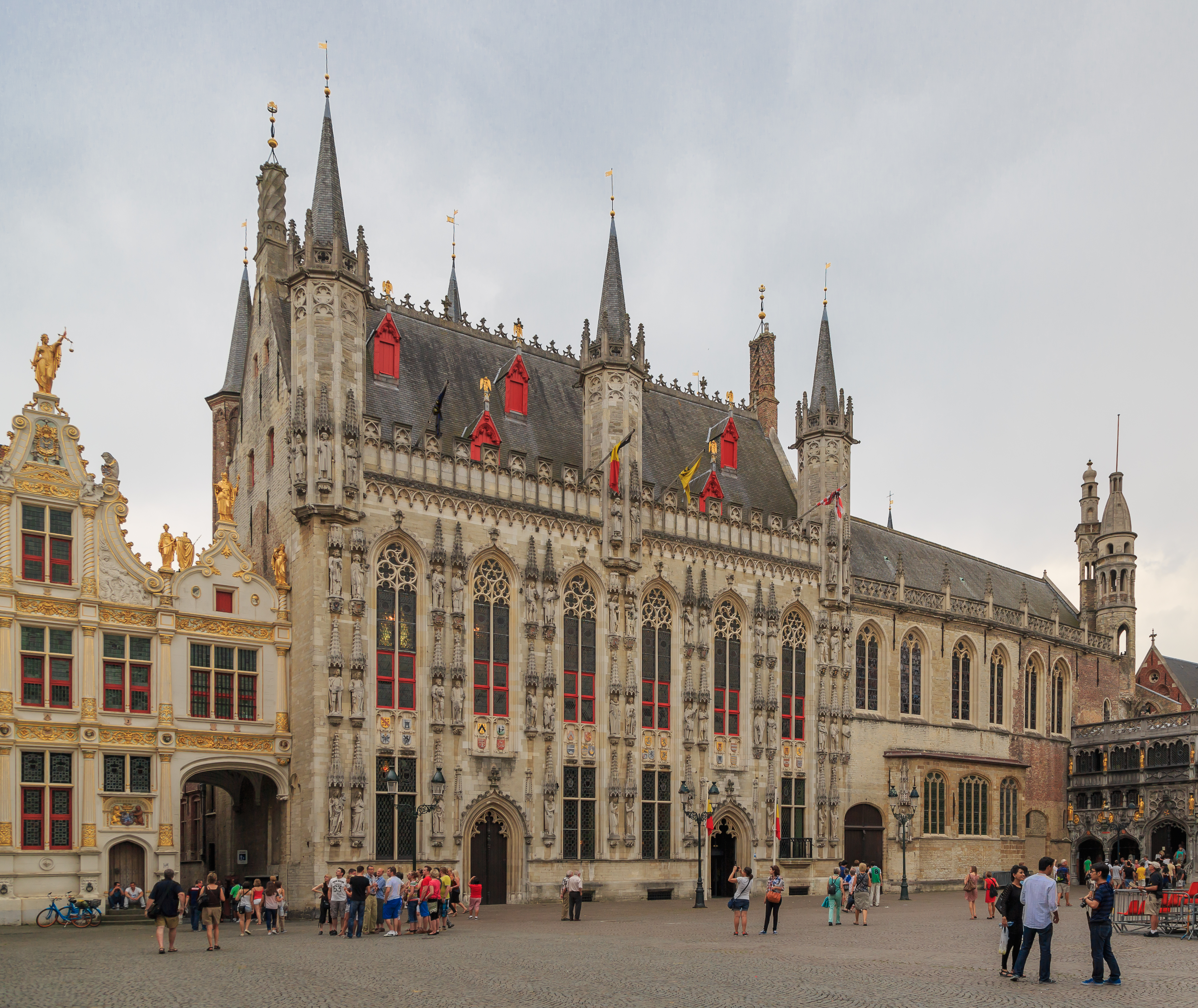 Bruges, Belgium: Town hall of Brugge